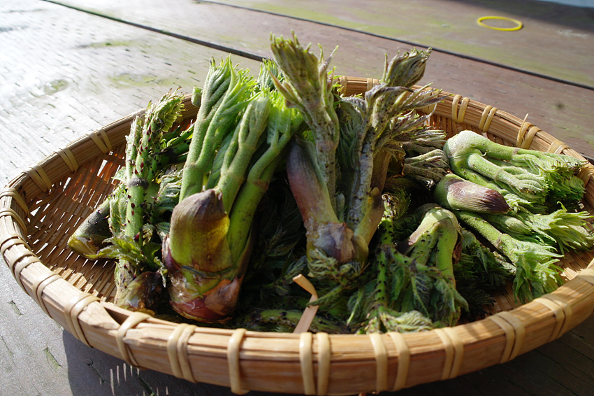 Dureup (Korean angelica-tree shoots)